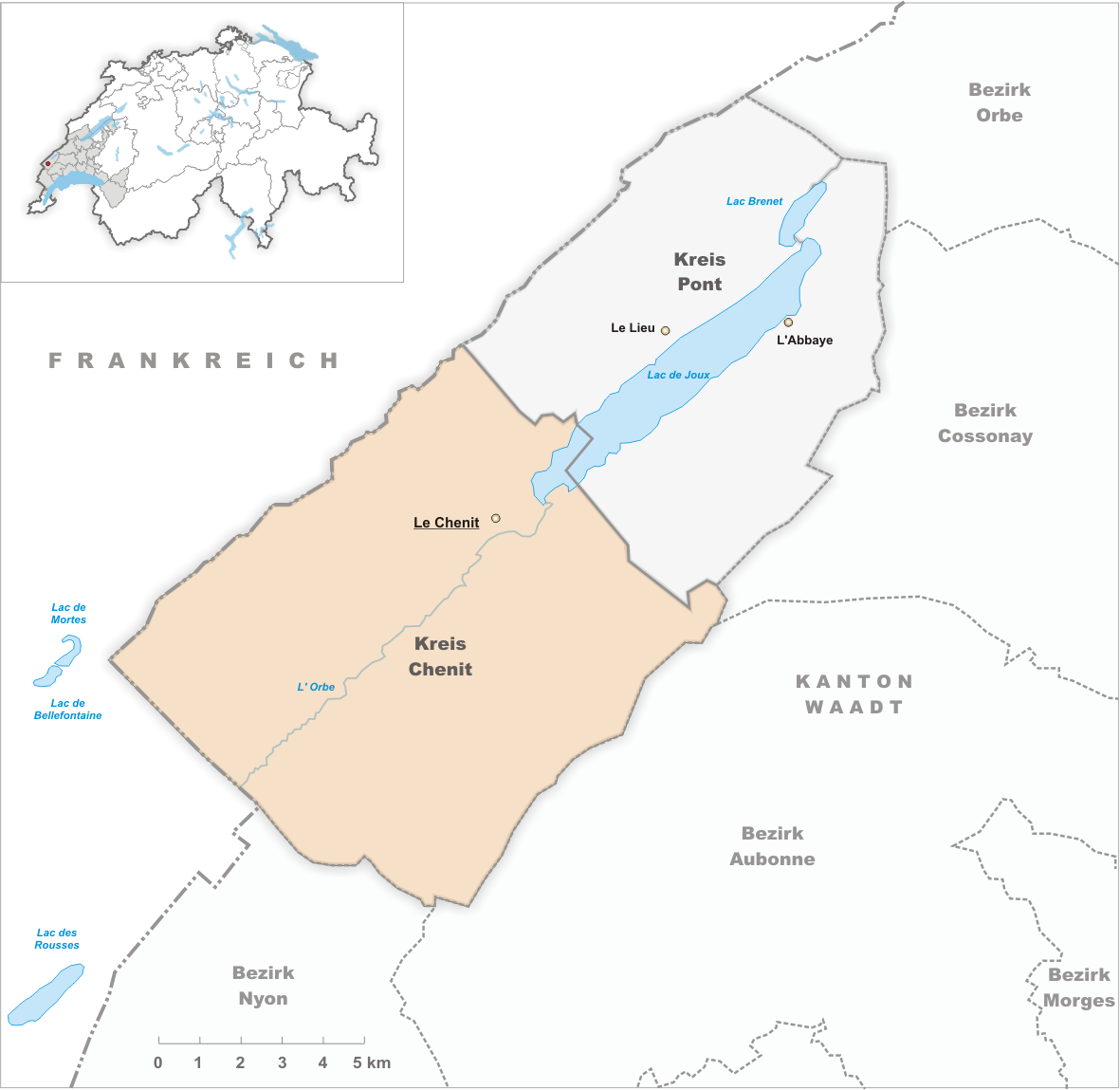 Municipality Le Chenit